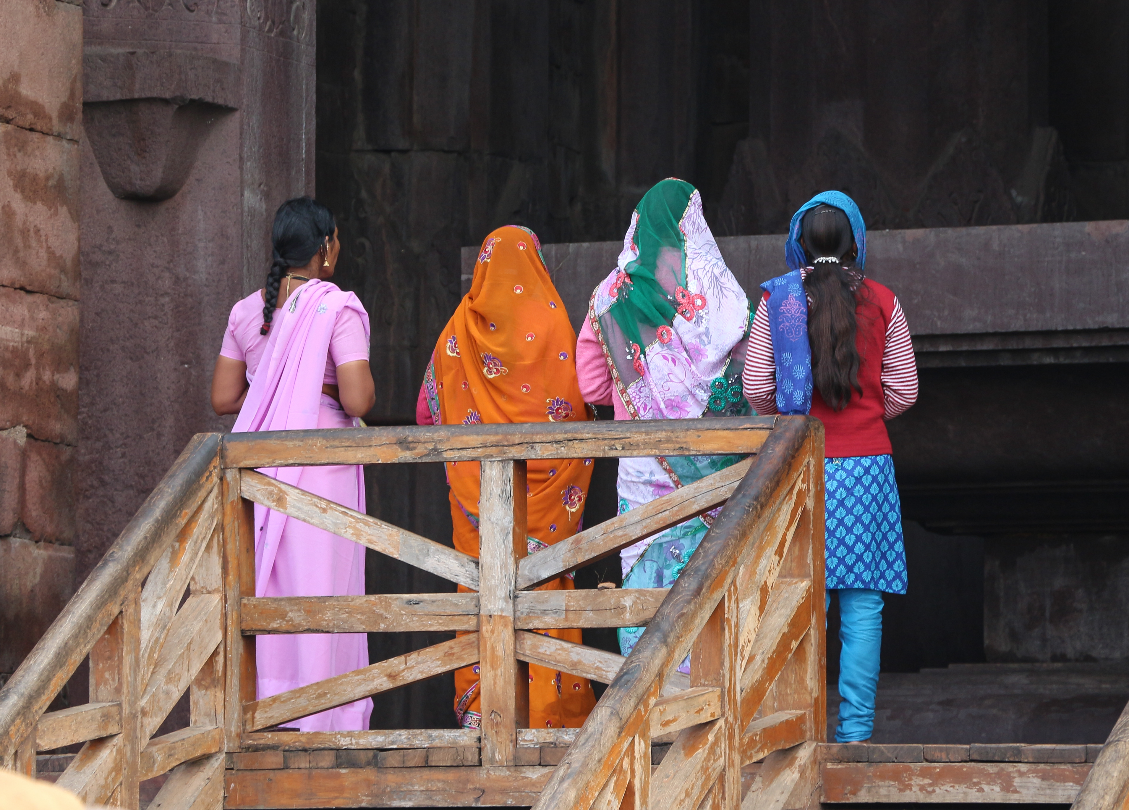 Hindu women at the entrance of the Shiva Temple, Bhojpur, India